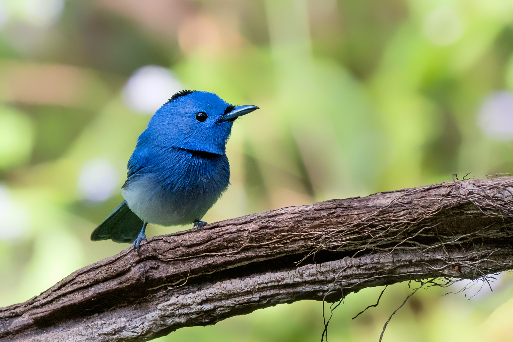 Black-naped Monarch, photographed at Dandeli, Karnataka, India; Photographer: Prasanna Kumar Mamidala